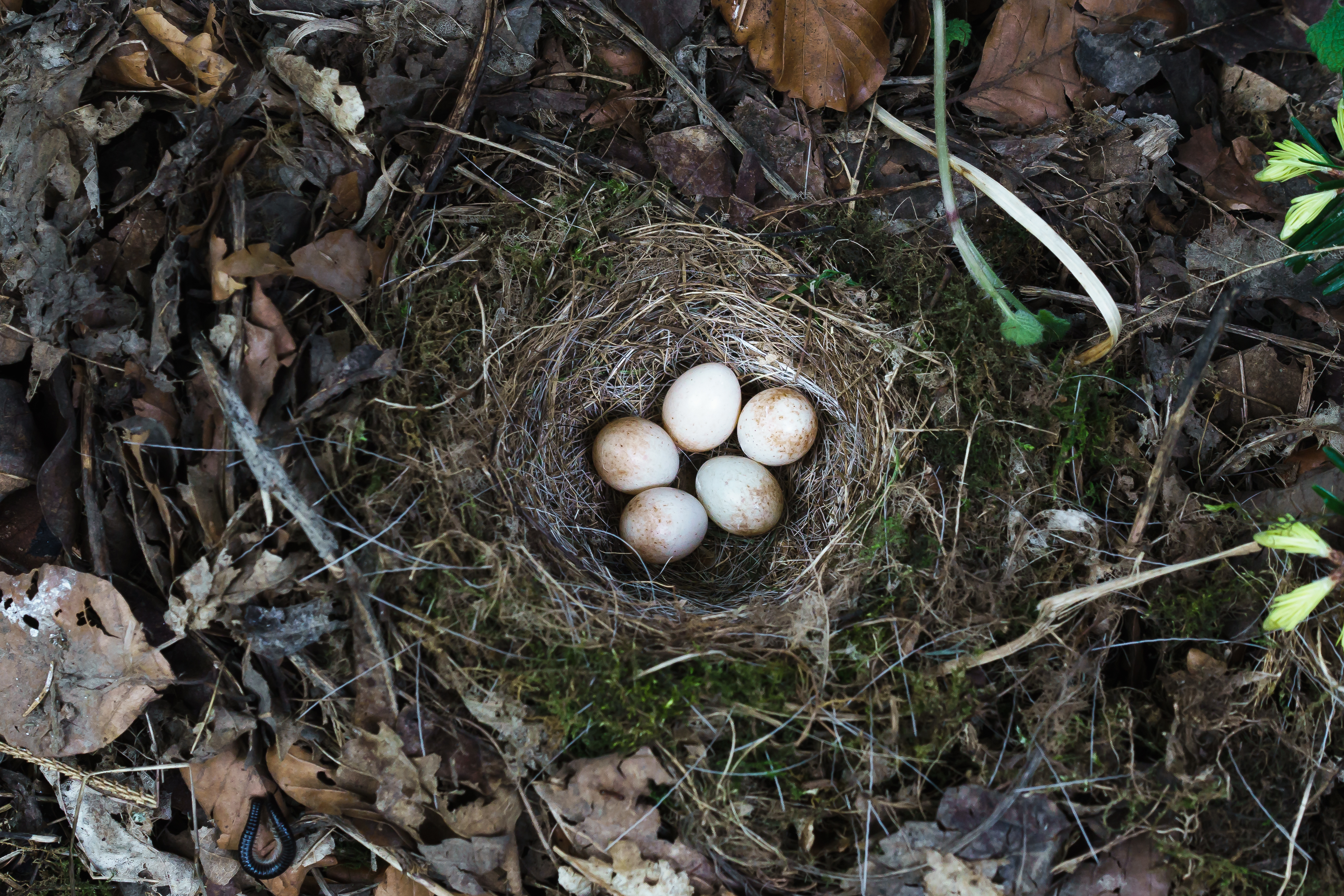 Bird nest ground-breeding bird (place: under an inverted wheelbarrow): robin (Erithacus rubecula) - eggs white with brown marbling, Vogelsberg Mountains